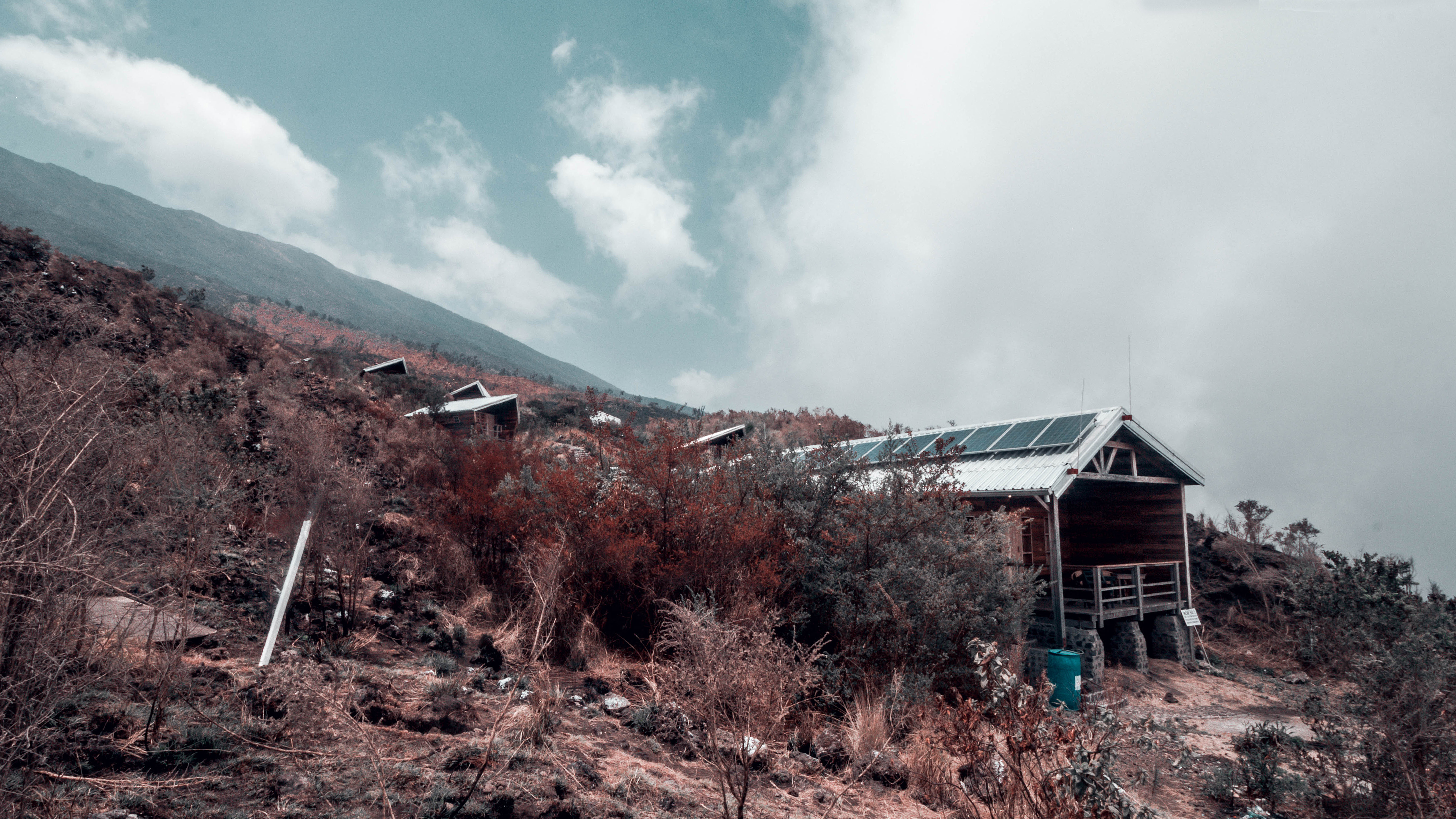 This is an image with the theme "Africa on the Move or Transport" from: Cameroon